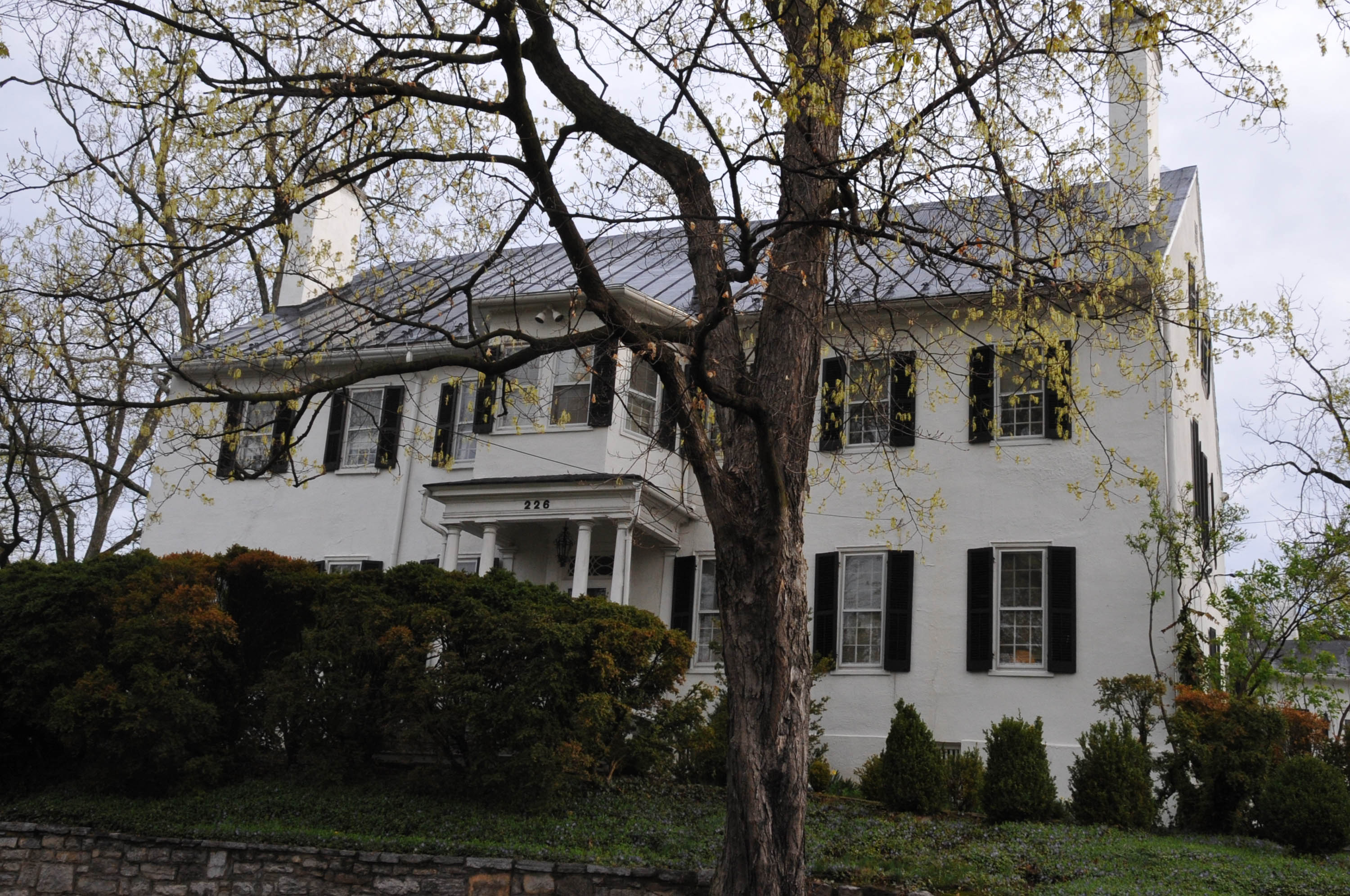 HOME WAS BUILT IN 1786 BY GEORGE F., NORTON. GENERAL DANIEL MORGAN DIED IN THIS HOME IN 1802. MORGAN WAS A PROMINENT REVOLUTIONARY GENERAL WHO WAS PRESENT AT SARATOGA AND COWPENS AND LED TROOPS IN SUPPRESSING THE WHISKEY REBELLION IN PENNSYLVANIA